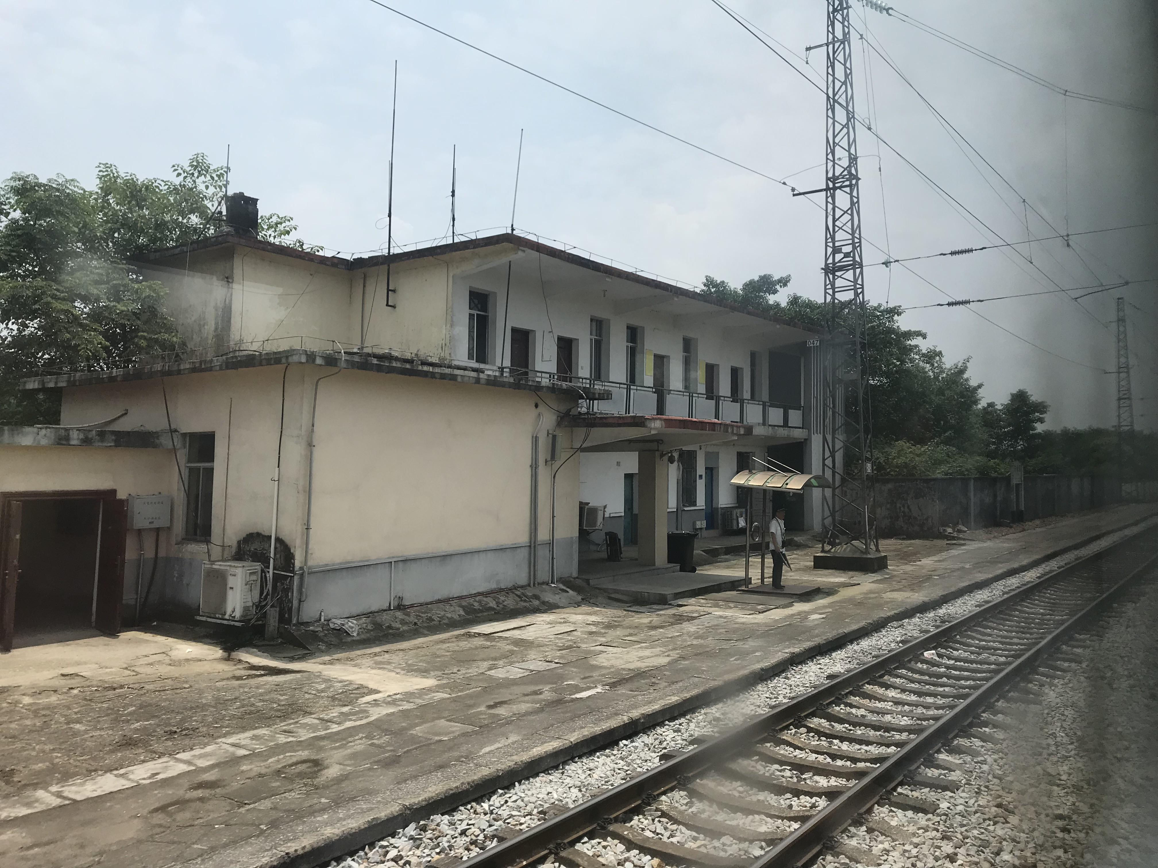 201906 Station Building of Gupeitang2